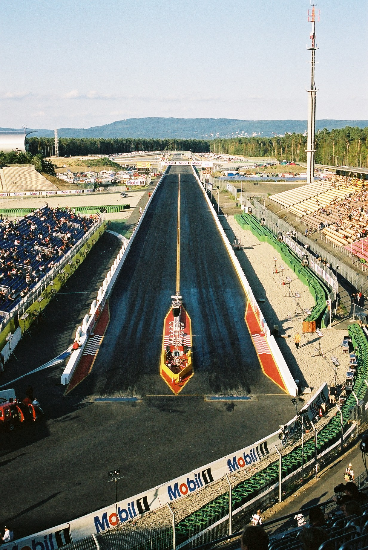 View to the Dragstrip in Hockenheim, NitrolympX 2003